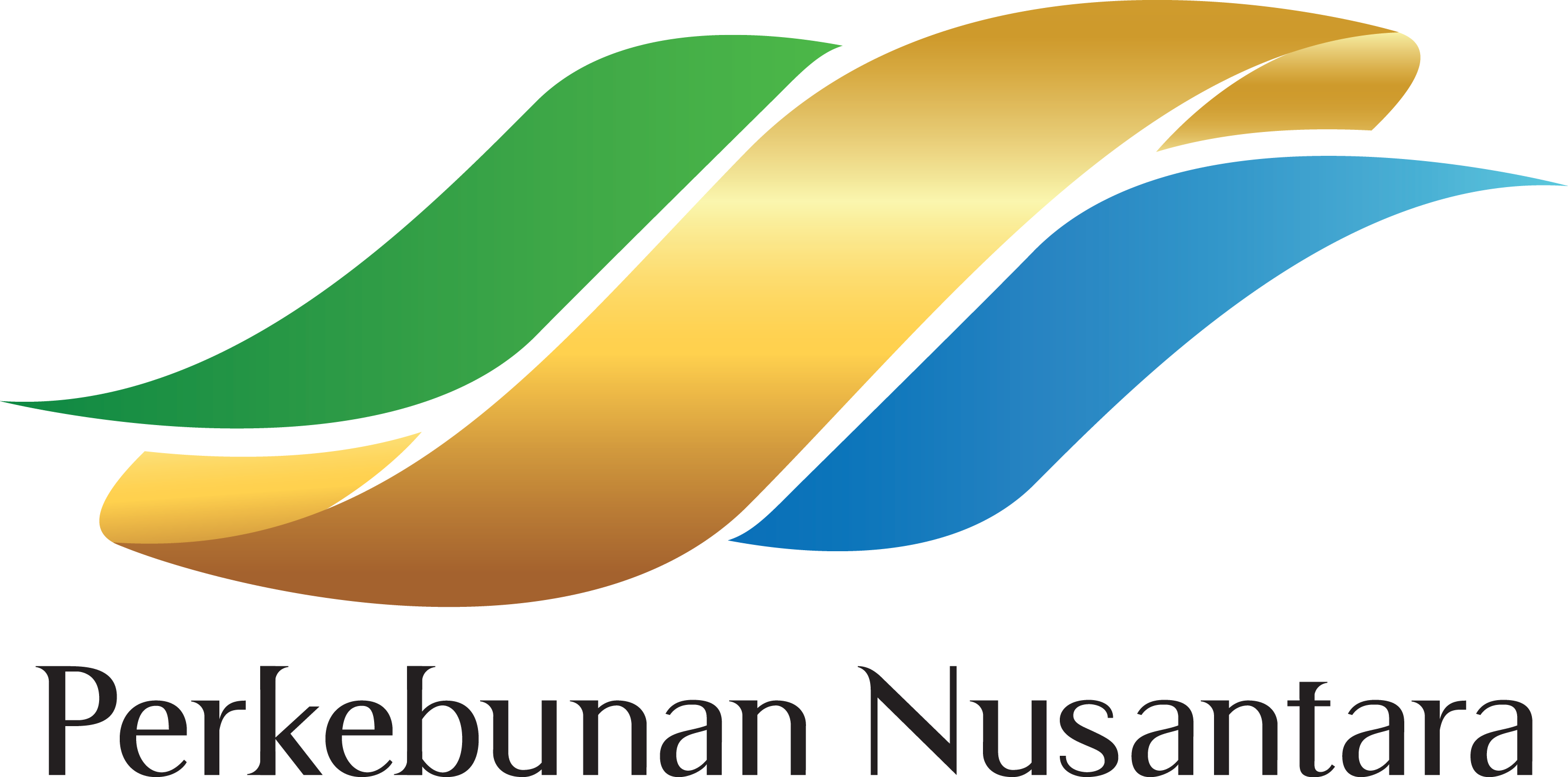 New logo Perkebunan Nusantara III Holding